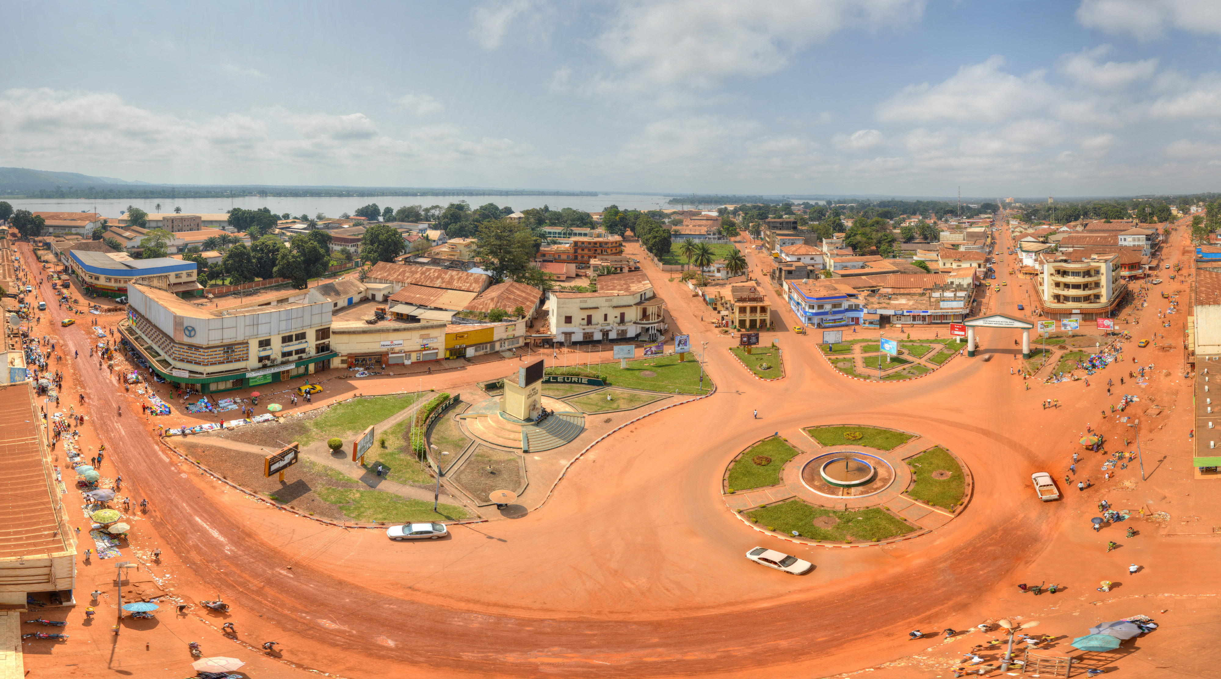 The city centre of Bangui, at PK0 roundabout level. The Democratic Republic of the Congo is on the other side of the Oubangui river, upper left of the photo.